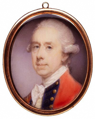 Portrait of General Thomas Gage